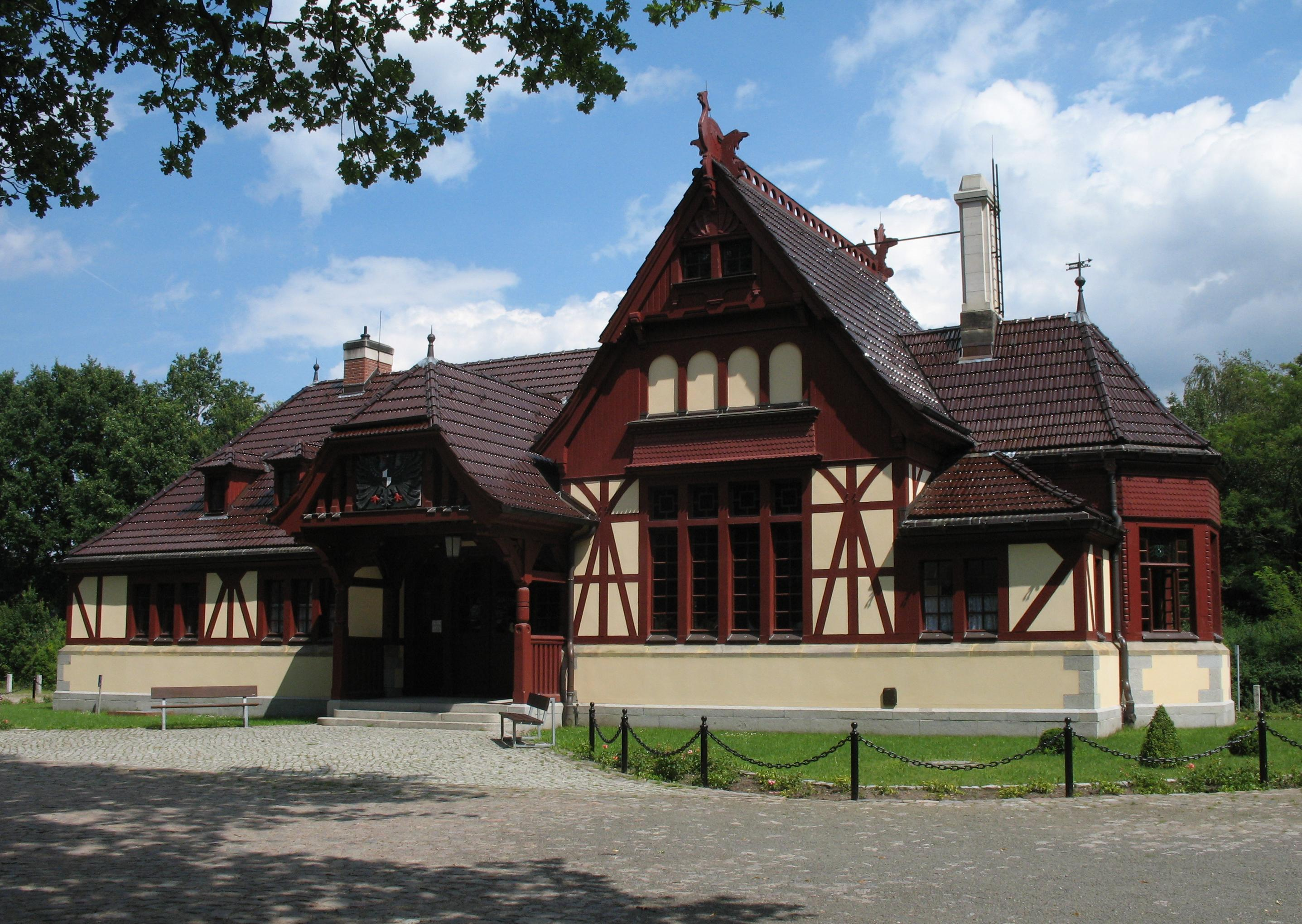 Train station in Joachimsthal in Brandenburg, Germany